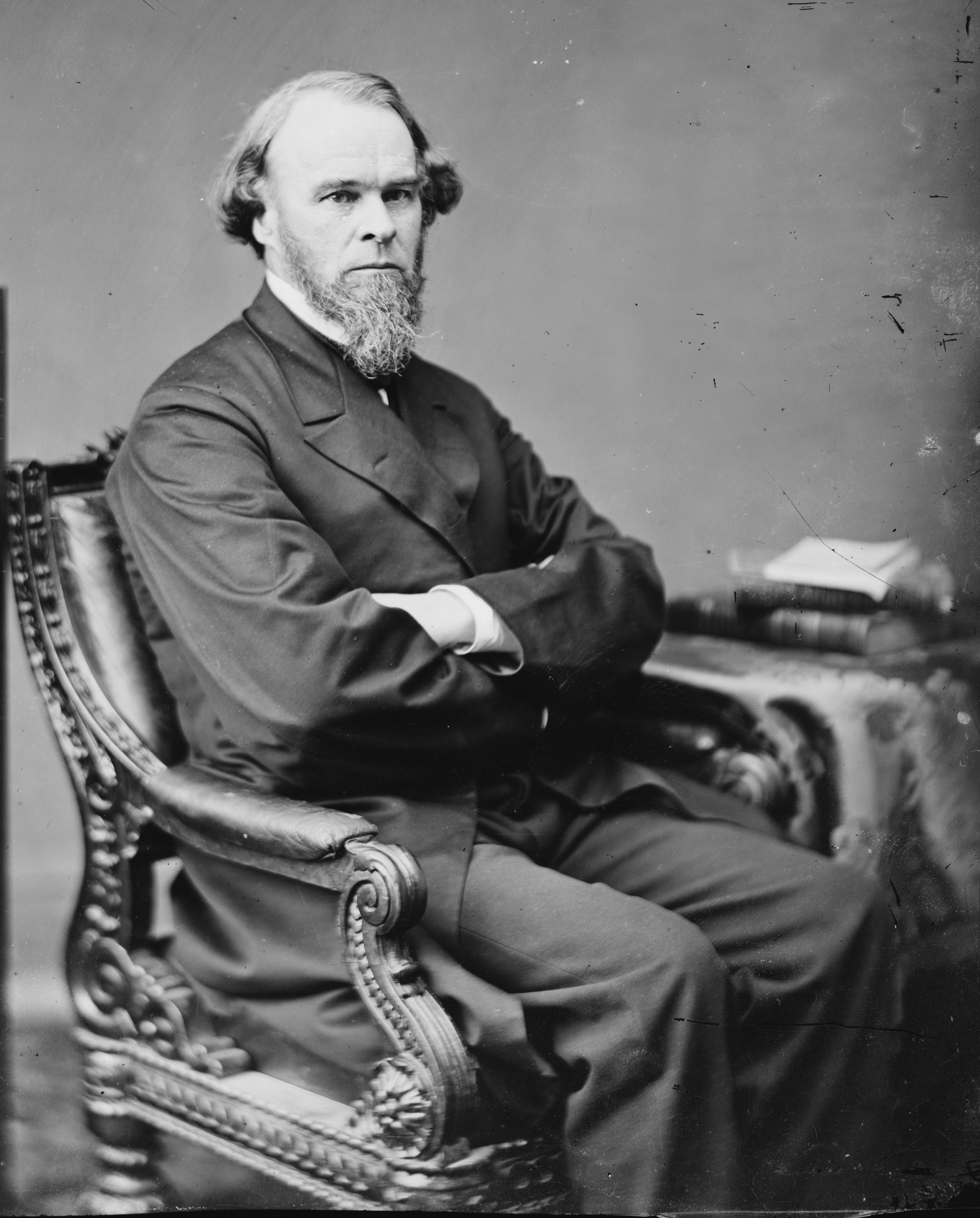 Fernando C. Beaman. Library of Congress description: "Hon. Fernando Cortez Beaman"